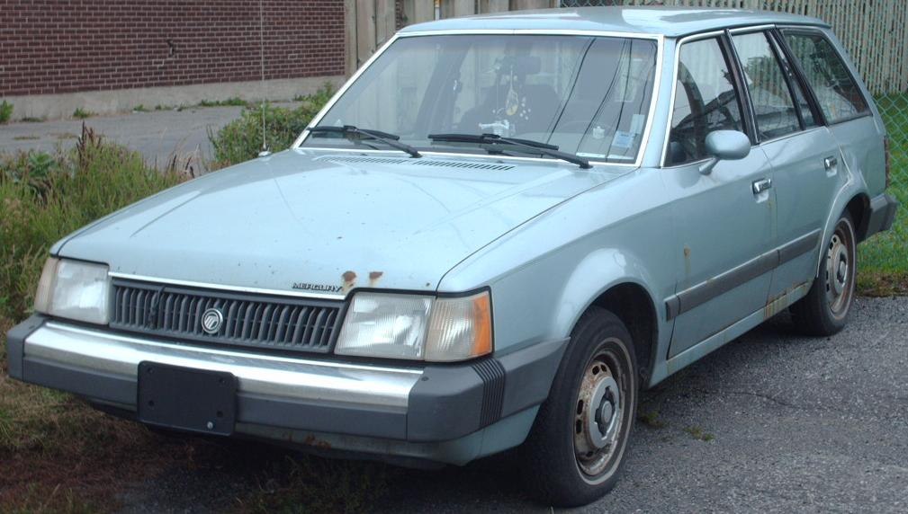 1986-1987 Mercury Lynx Wagon photographed in Montreal, Quebec, Canada.